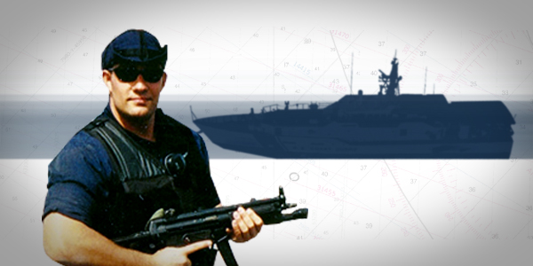 USCG Petty Officer Nathan Bruckenthal died in combat off the coast of Iraq.